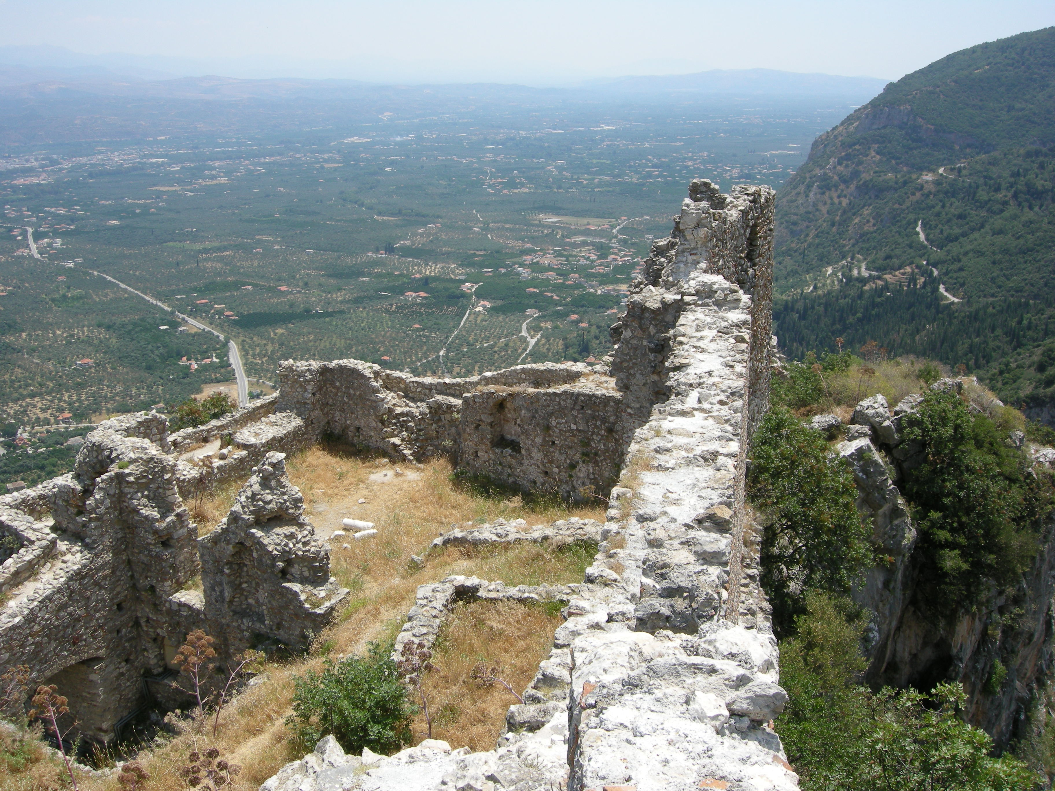 Castle of mystra